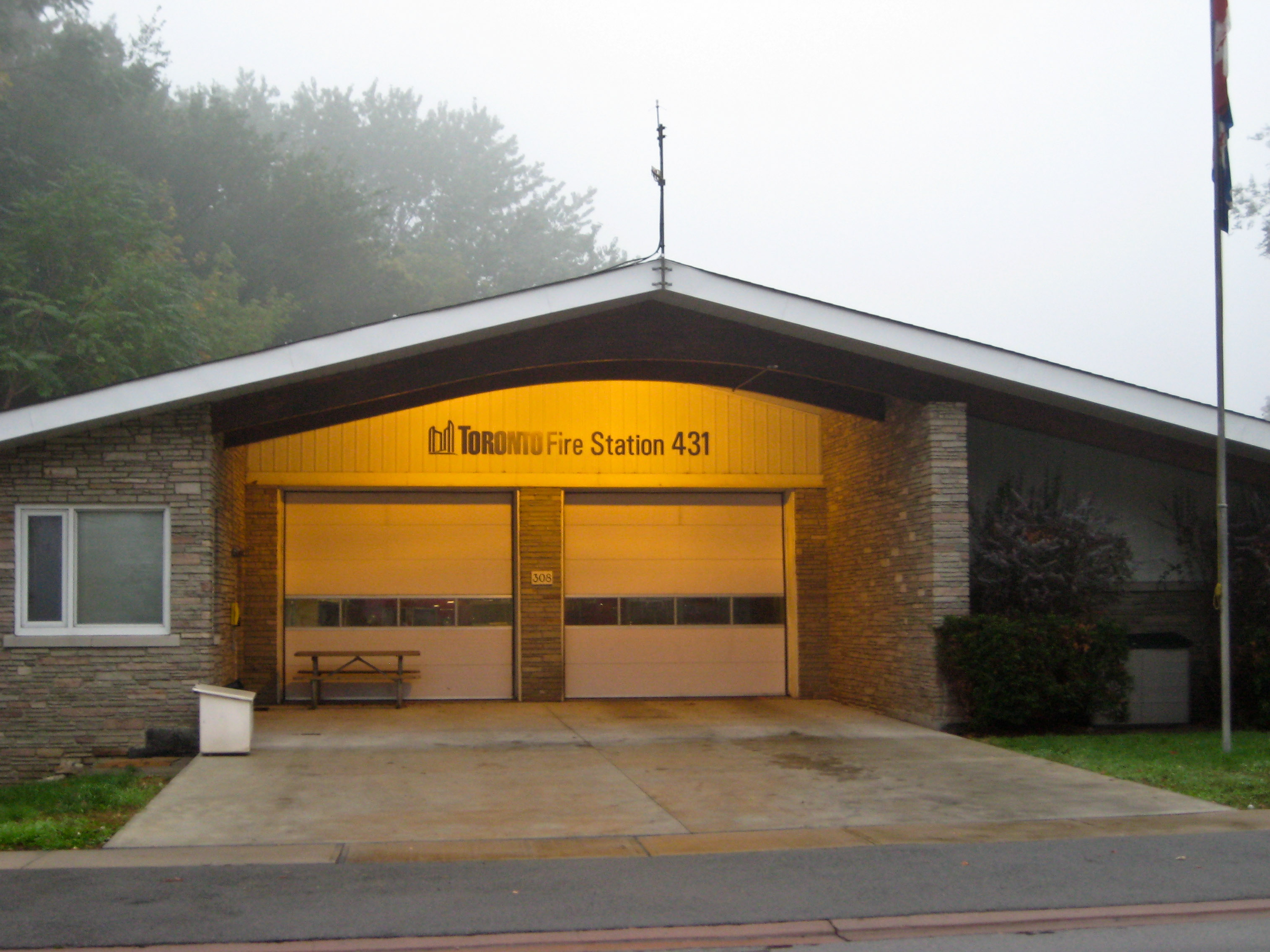 Toronto Fire Station 431, 308 Prince Edward Drive South, Etobicoke